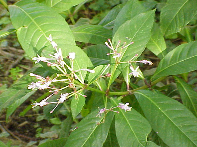 Species: Fuchsia arborescens Family: ' Image No. 1